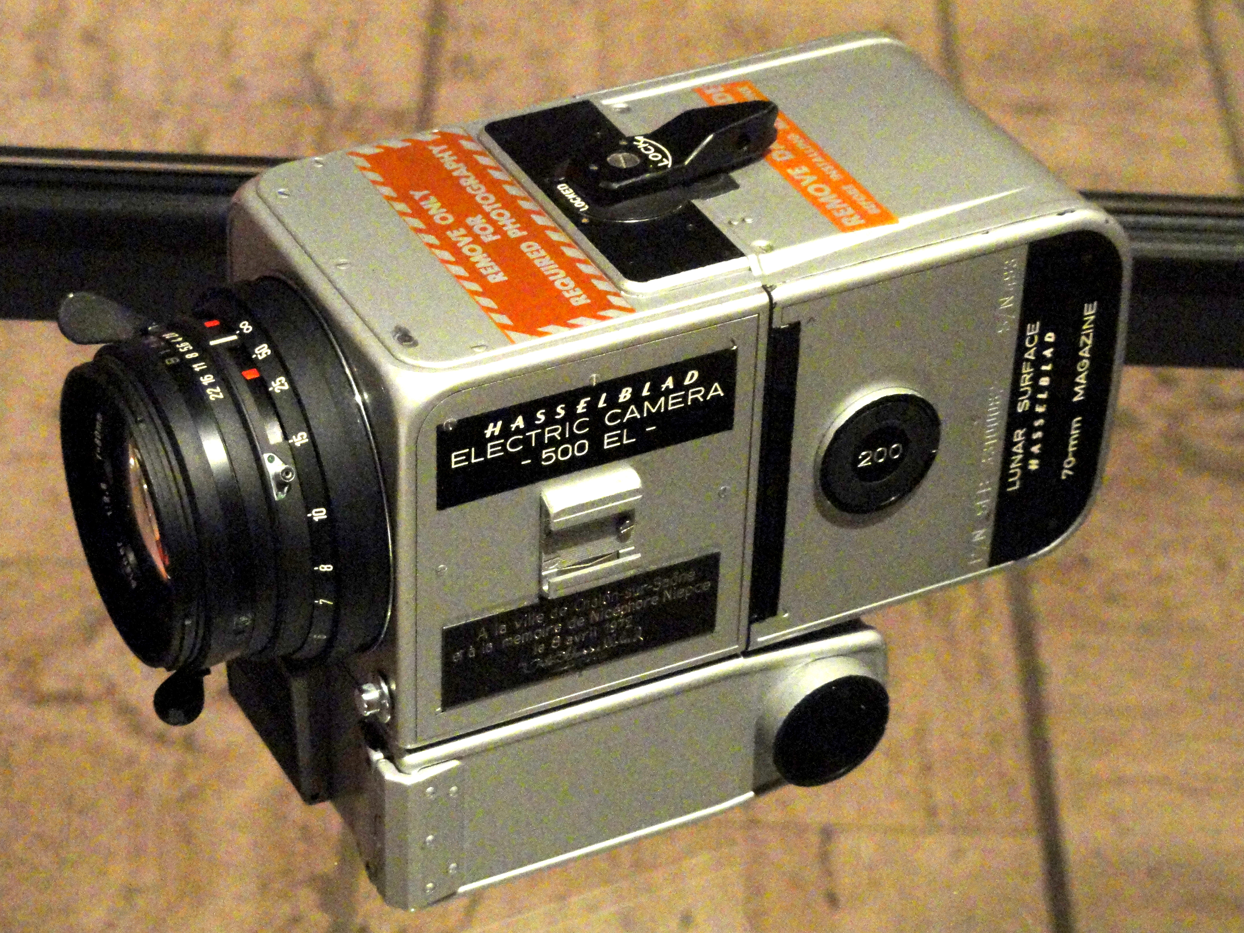 Hasselblad 500 EL, 1968, identical to that used on Apollo 11 mission to moon. Exhibit in the Musée Nicéphore Niépce, 28 Quai Messageries, Saône-et-Loire, France. There were no restrictions on photography in the museum.